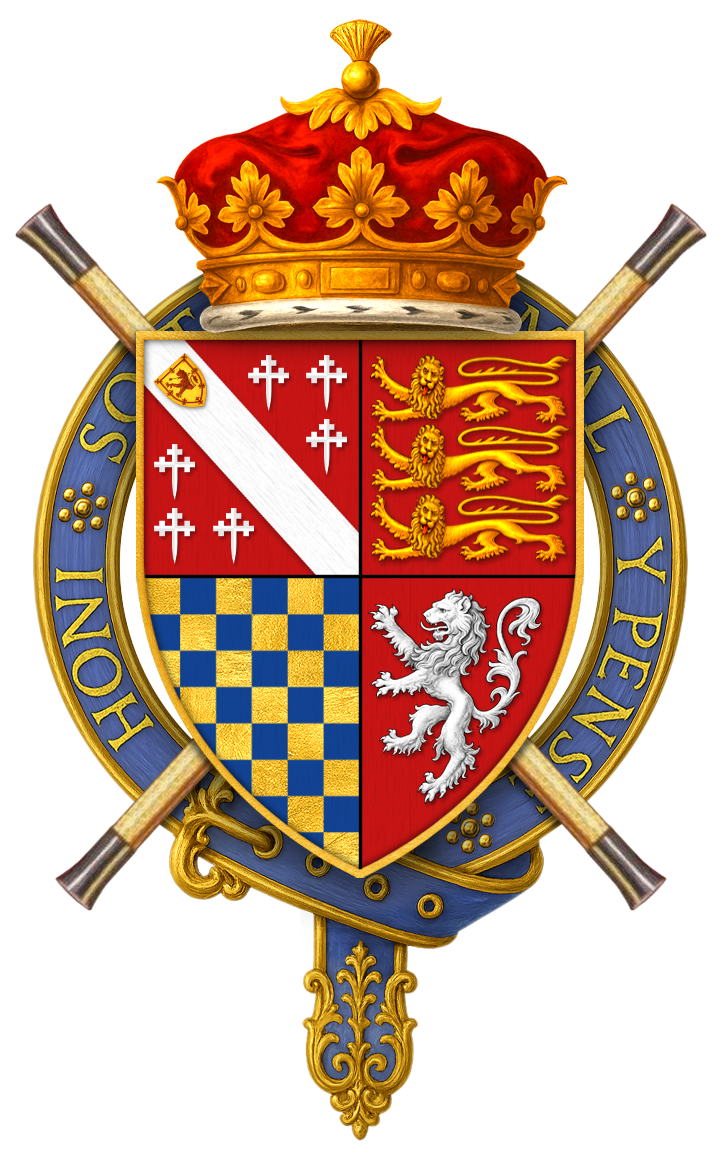 Shield of arms of Bernard Howard, 12th Duke of Norfolk, KG, PC, FRS, Earl Marshal